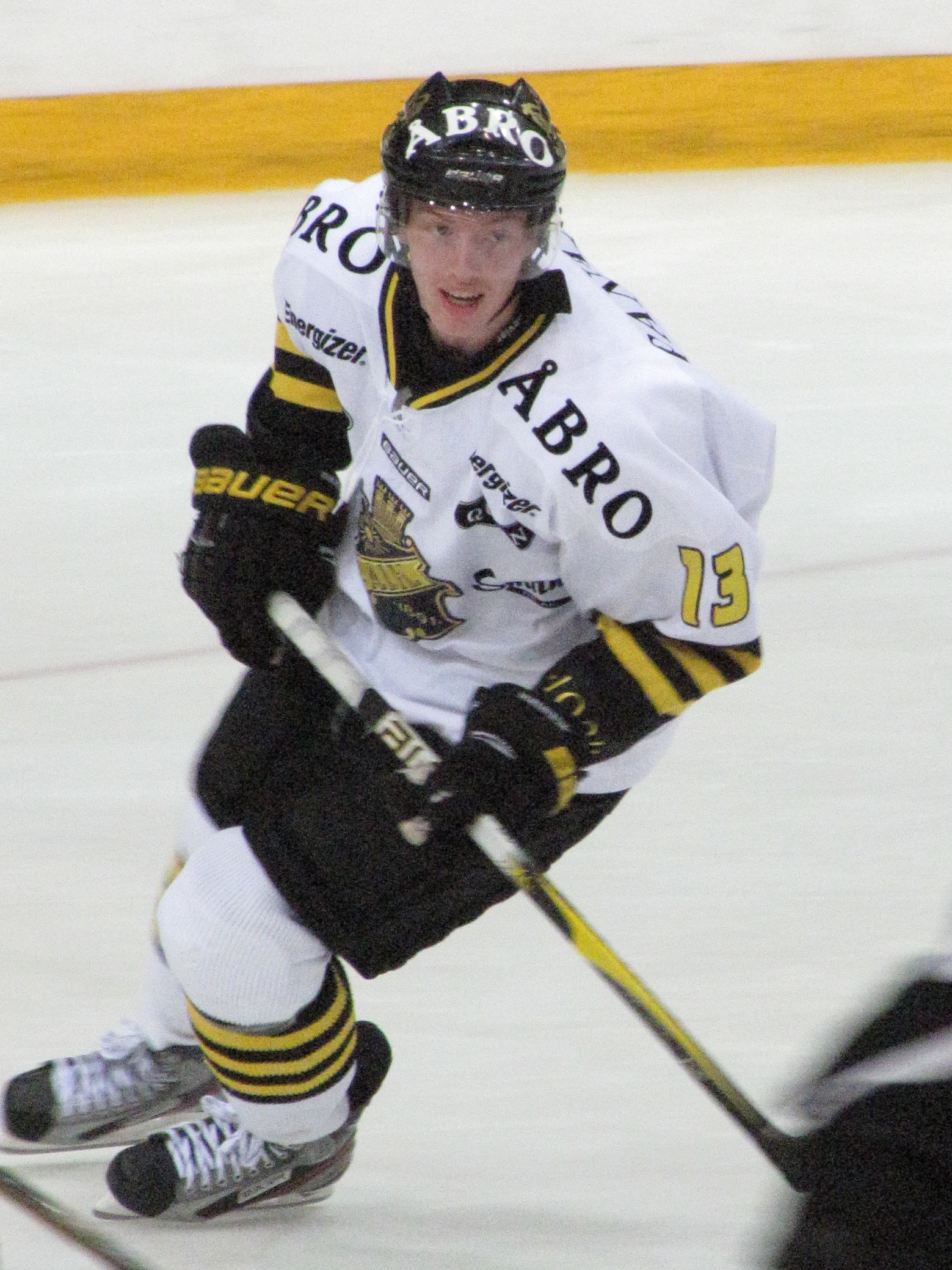 Swedish ice hockey center Joakim Nordström in a pre-season game between his Stockholm AIK and Tampere Ilves of Finland in August, 2011.